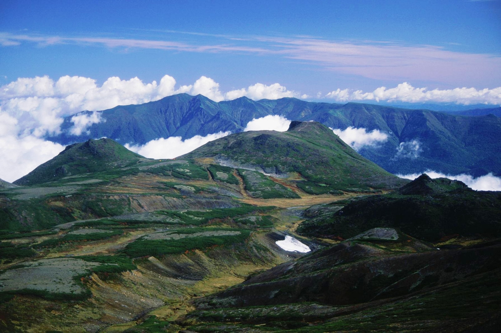 Looking NE from Mount Hokkai in Daisetsuzan volcanno. Mount Kuro (foreground), Mount Niseikaushuppe (left background)